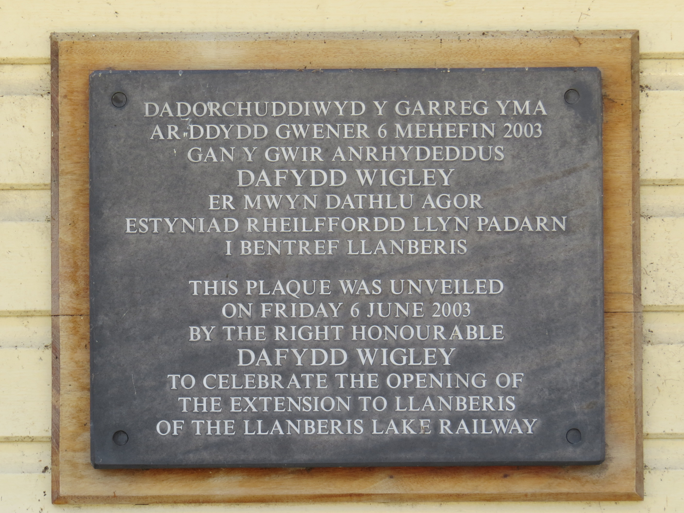 Plaque commemorating opening of Llanberis station by Dafydd Wigley